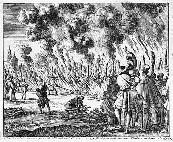 Burning_of_the_Waldensians